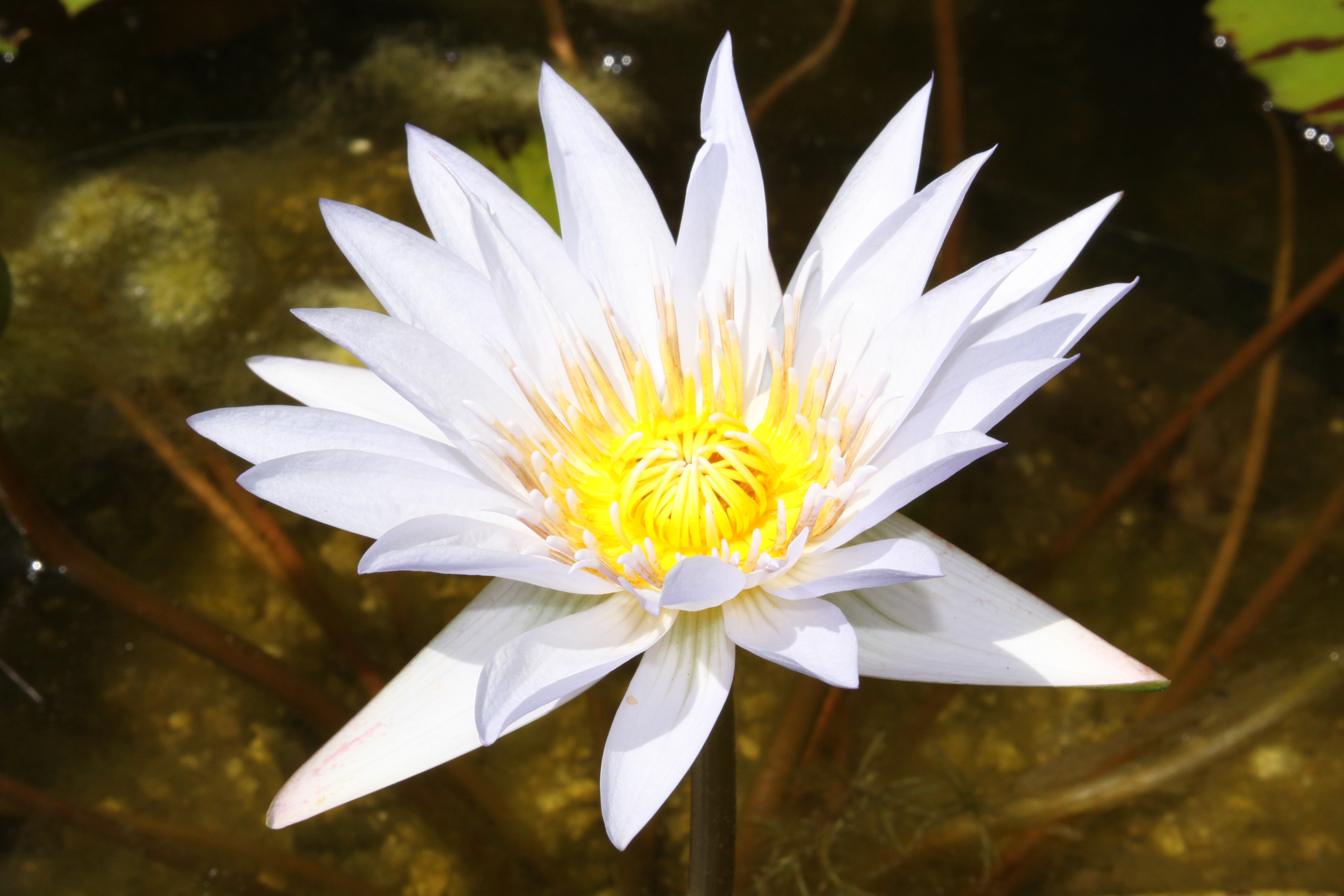 Water lily (Nymphaea cvs) at Florida Botanical Gardens. Clearwater, Florida.